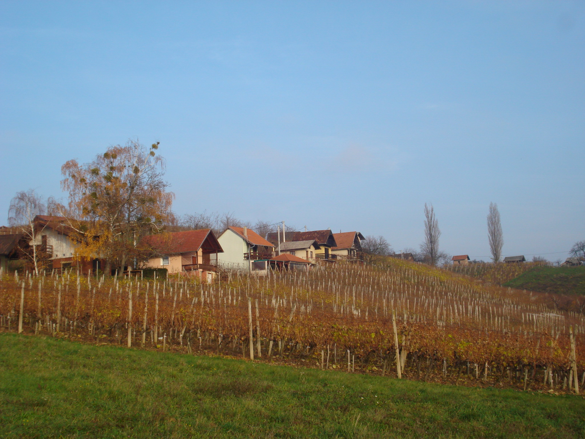 2012 late autumn landscape of "Međimurske gorice", Međimurje wine subregion, at Dragoslavec village, northern Croatia